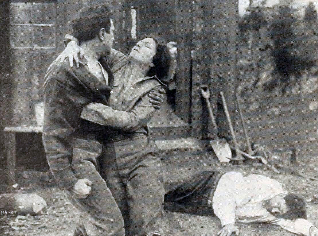 Illustration of an article in The Moving Picture World for the film The World's Great Snare (1916).